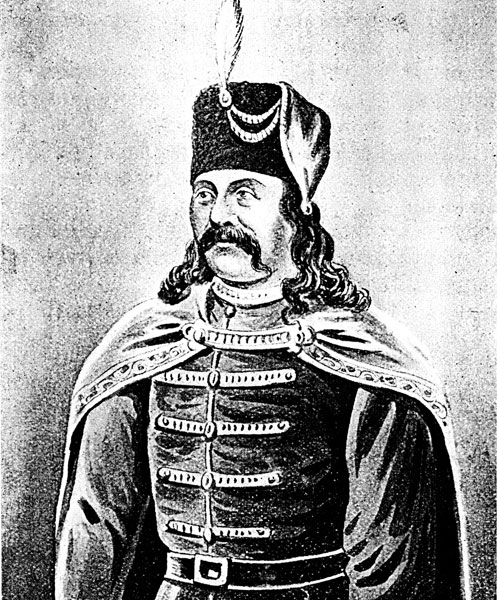 "Vojislav (Višeslav), the First Serbian Grand Prince"